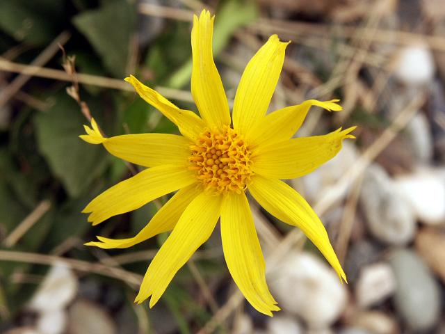 Arnica griscomii ssp frigida in the Interior of Alaska